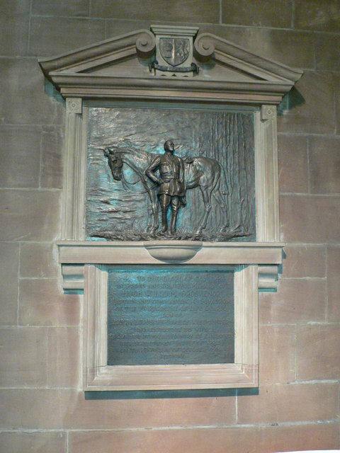 Memorial, St Mary's Church Eccleston, near to Eccleston, Cheshire, Great Britain. A bronze relief-memorial to Captain Hugh William Grosvenor, who was killed in the First World War. He was the son of the 1st Duke of Westminster. The relief is on the wall in the Grosvenor Chapel, where there are memorials to all five Dukes of Westminster.